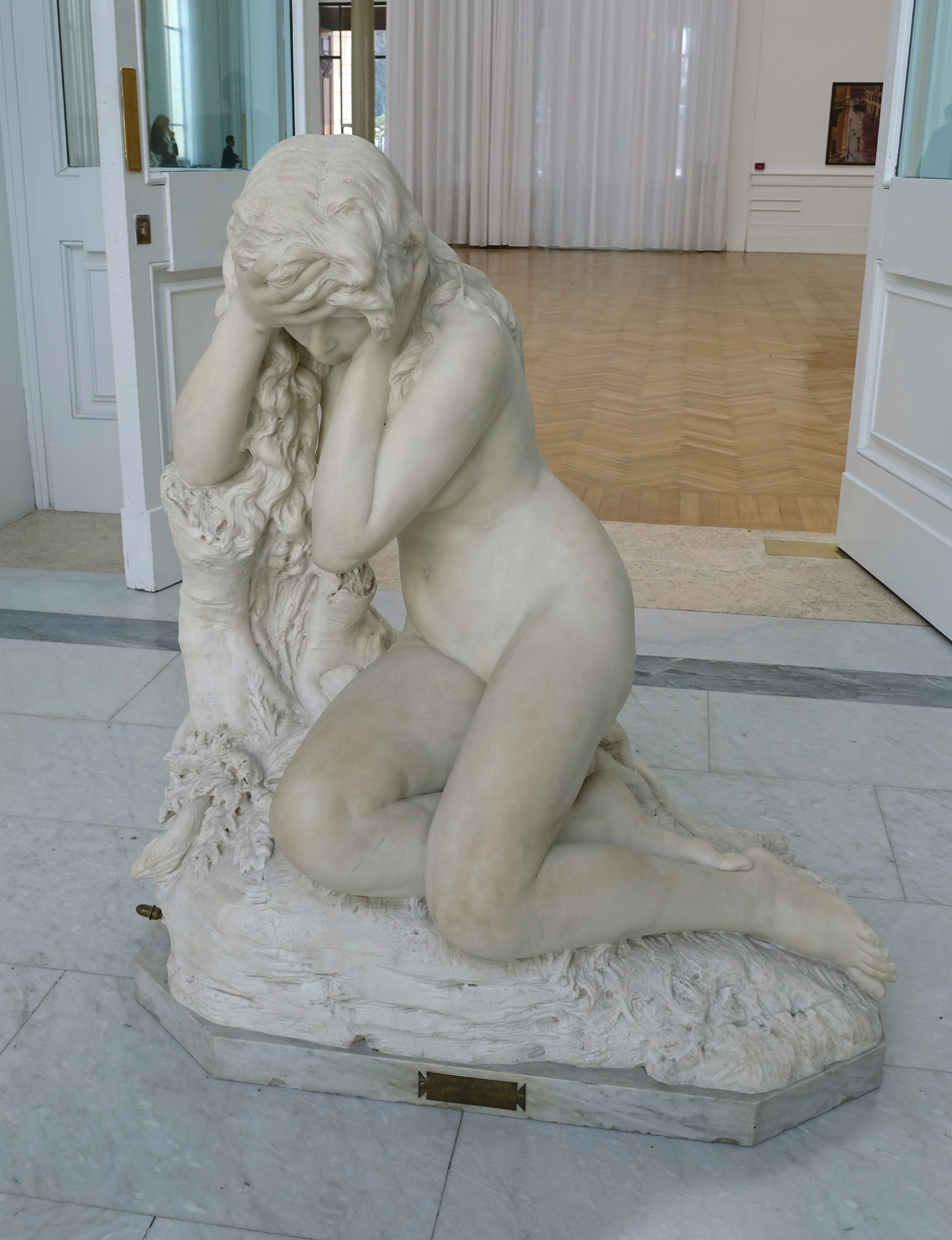 Exhibit in the Galleria nazionale d'arte moderna - Rome, Italy.